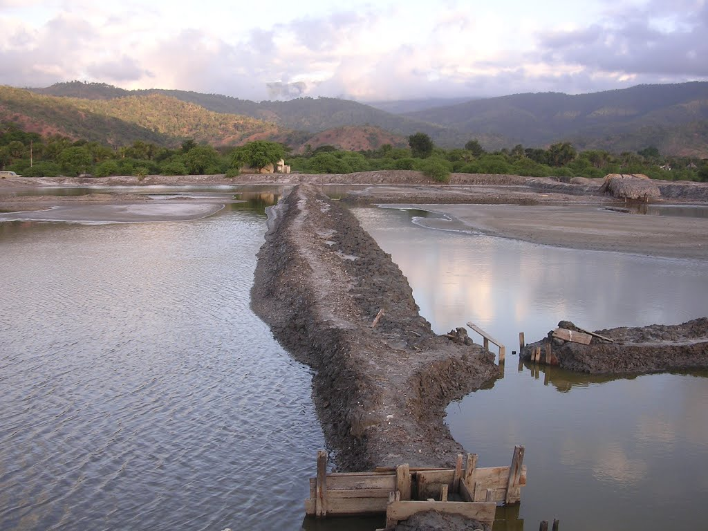 Aquaculture salt and fishponds at Tibar, Dili Timor-Leste